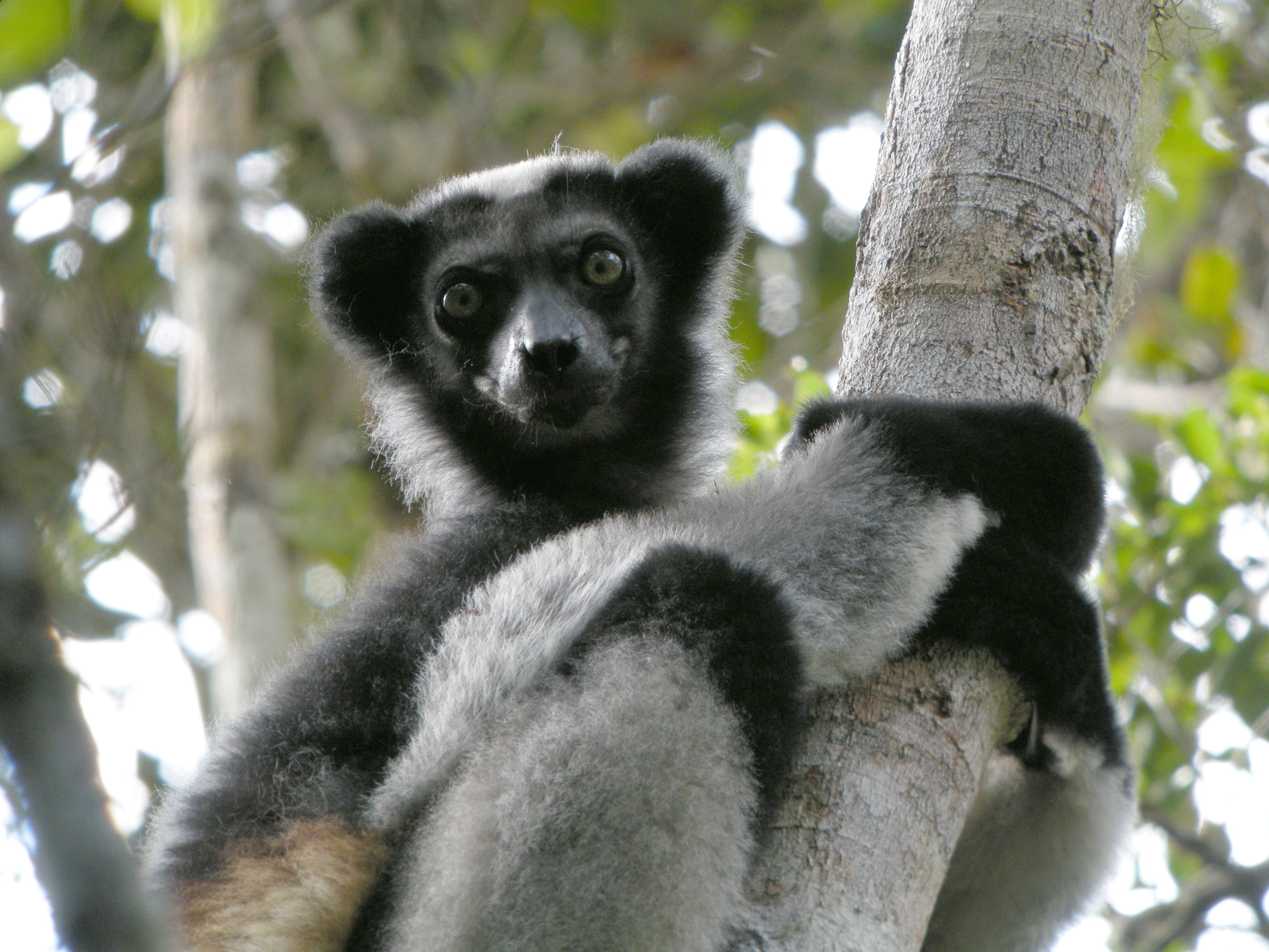 Digiscoping with Swarovski ATM 80 HD 30 X, Coolpix P5100 (Adapter DCB)